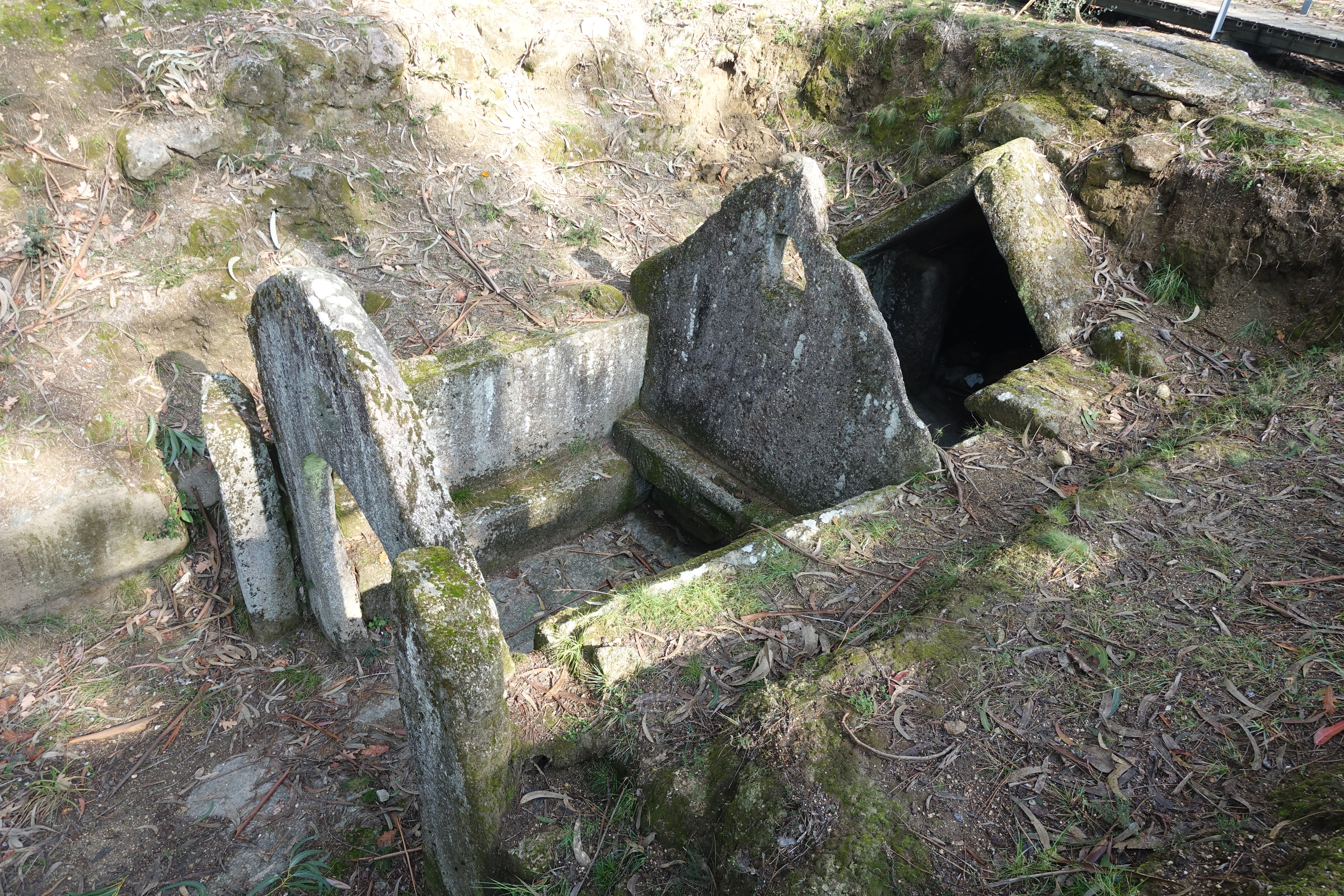 Monumento castrejo de Santa Maria de Galegos, Barcelos, Portugal.